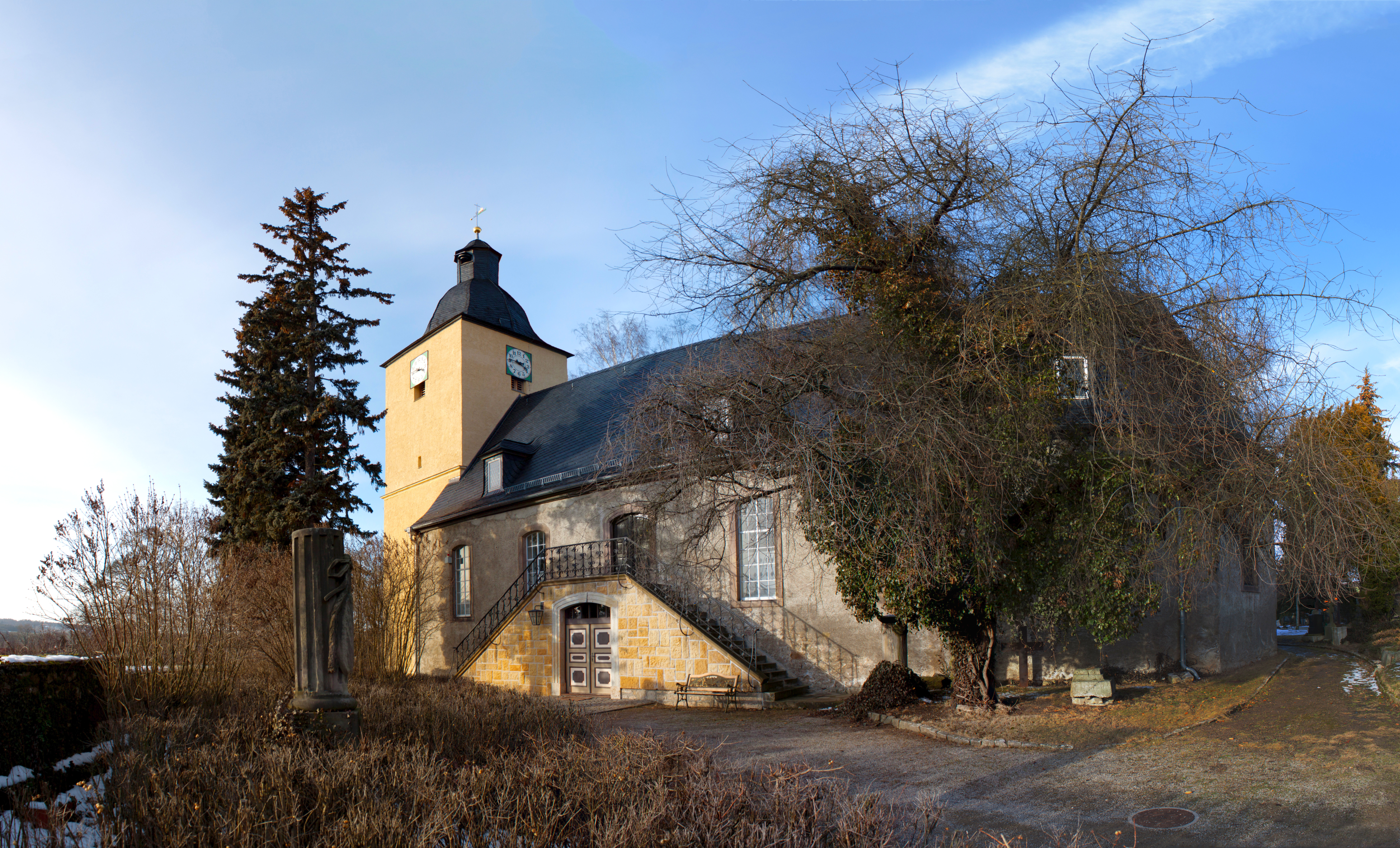 St. Georg Church, Mellingen